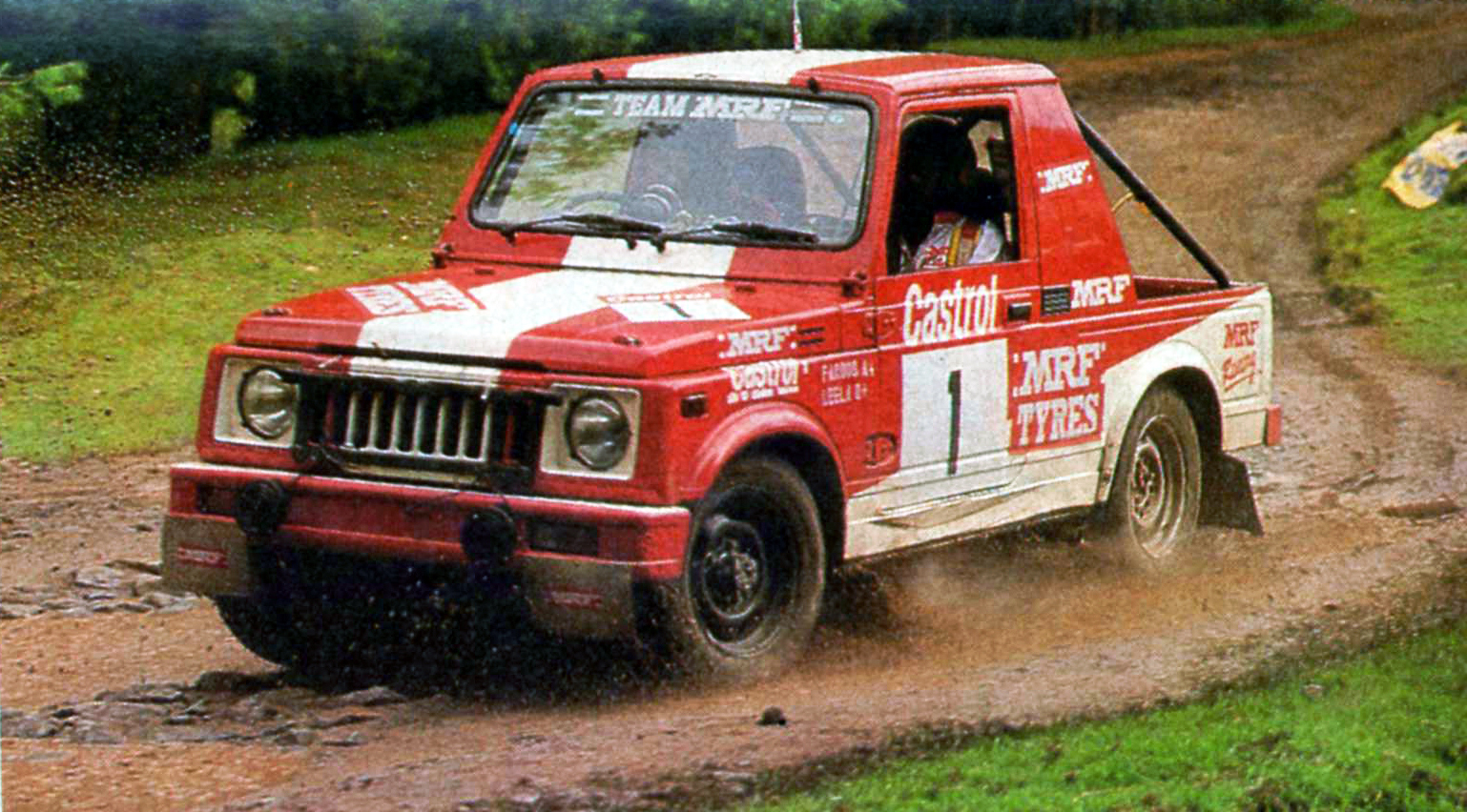 N. Leelakrishnan in a Team MRF Maruti Gypsy in the 1993 Castrol South India Rally in Kodaikanal stages.